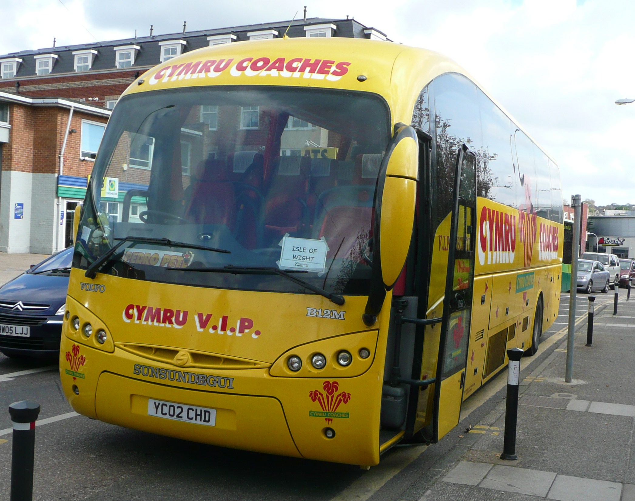 Cymru Coaches YC02 CHD, a Volvo B12M/Sunsundegui Sideral 2000 coach (built 2002) in Newport, Isle of Wight, England.